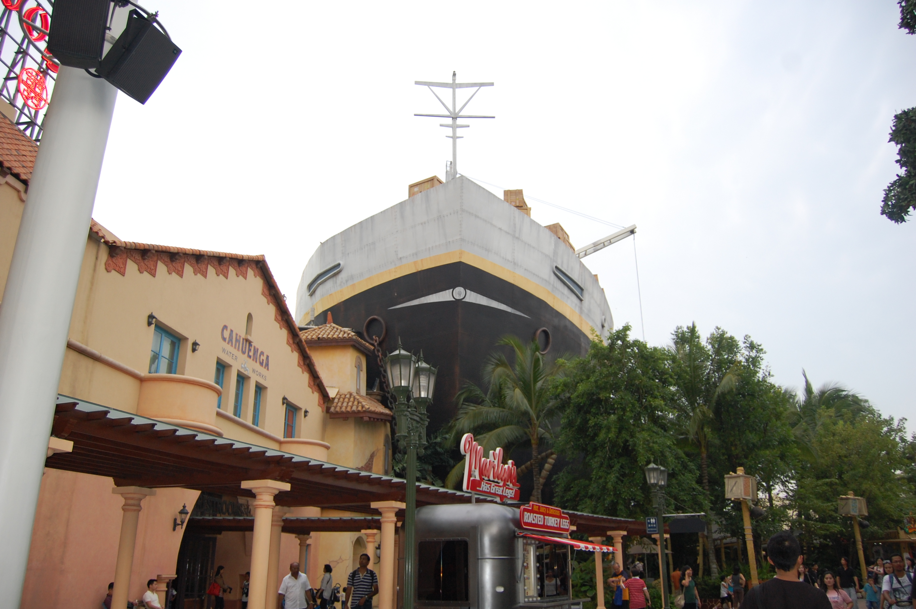 Universal Studio Singapore